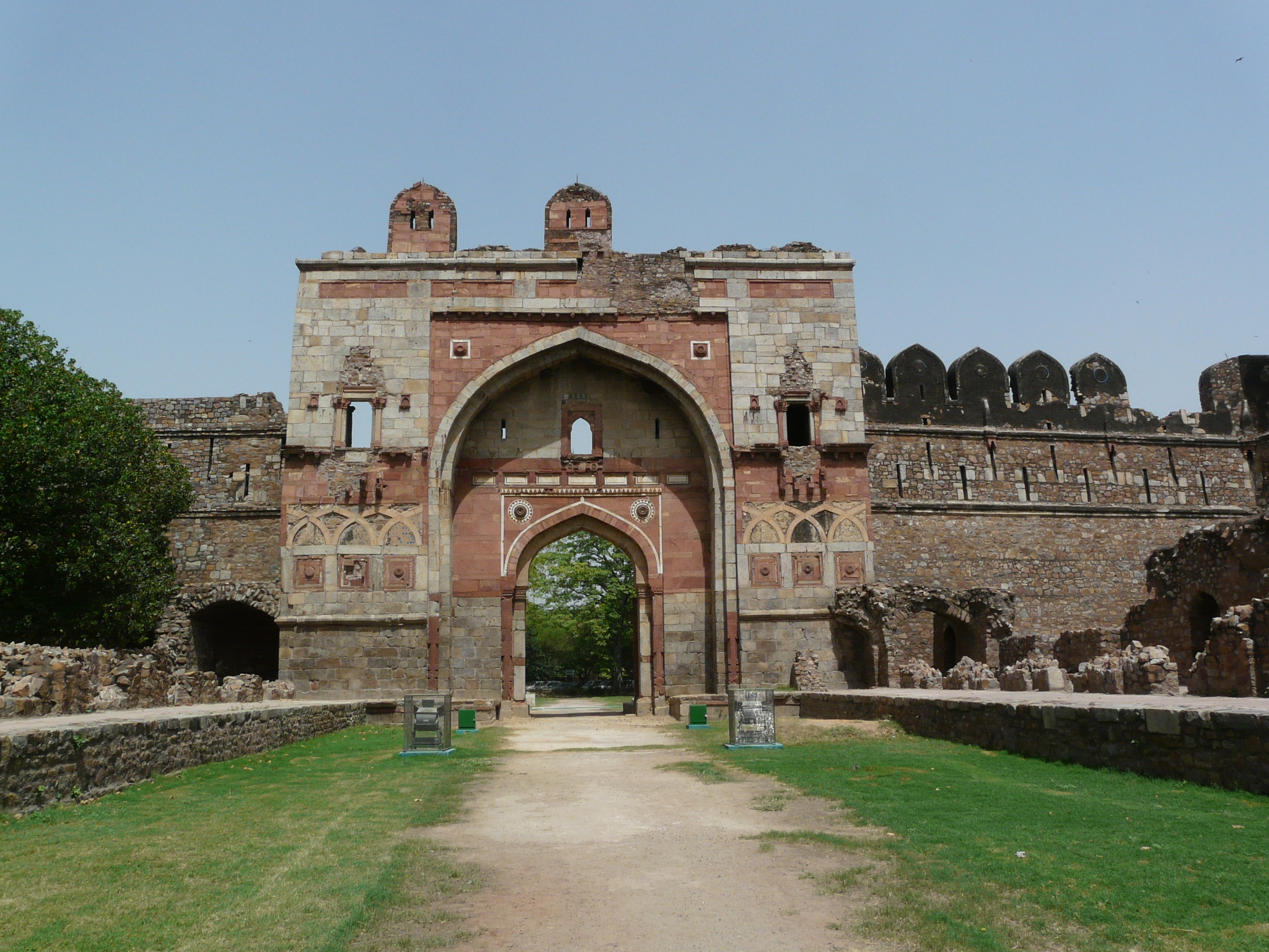 Lal Darwaza (Red Gate)or Sher Shah Gate, with ruins along approach. It was the Southern Gate to the Sher Shah Suri's city, Shergarh.